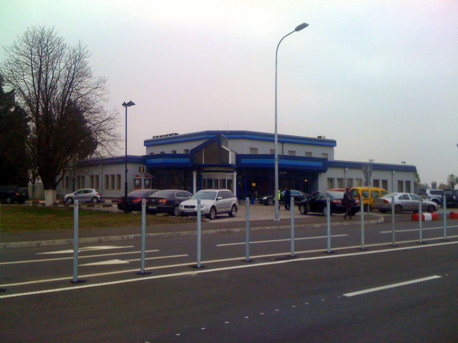 Kiev Boryspil Intl, Terminal C (VIP)